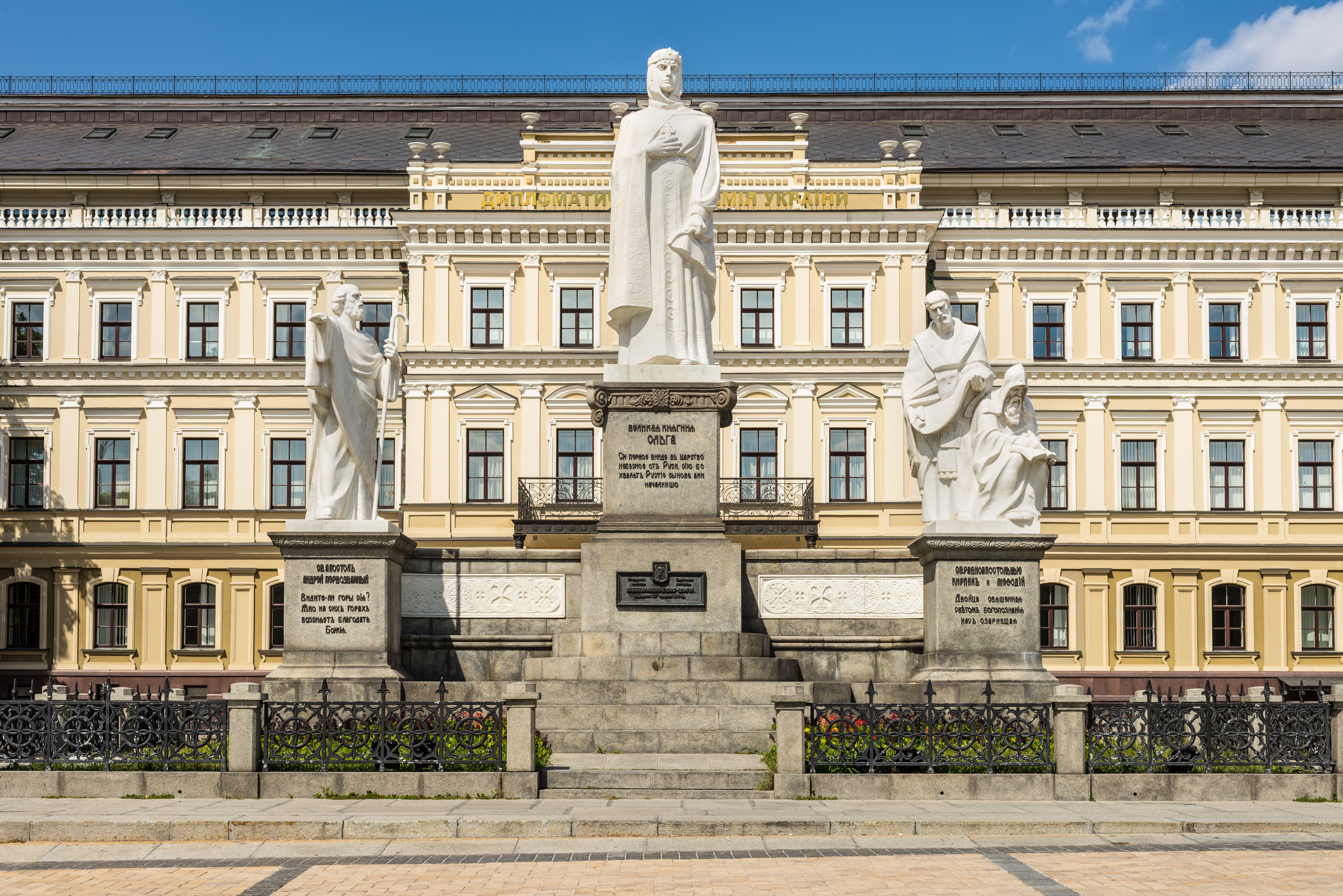 Kyiv, Ukraine - August 18, 2013: Monument to Princess Olga, Apostle Andrew, Cyril and Methodius in Kyiv (Kiev), Ukraine.